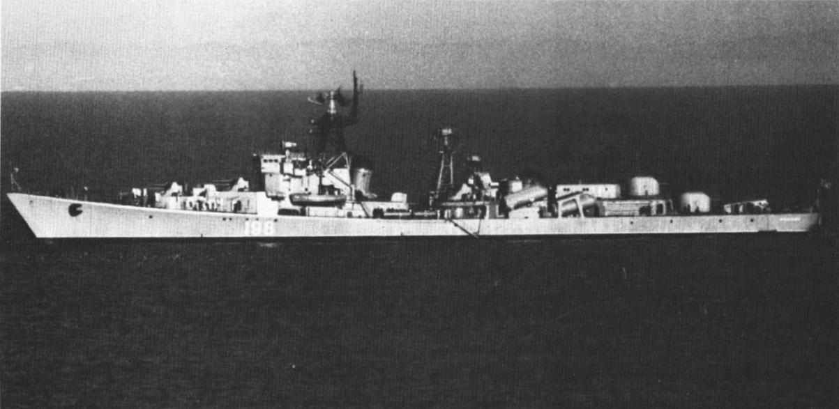 The Soviet Kildin-class guided missile Neulovimyy underway after her modernization. Neulovimyy was modernized from 2 December 1971 to 4 October 1972 at the Nikolaev Shipyard No. 445 and equipped with 4 KT-15M launchers for the P-15 Termit (SS-N-S Styx) anti-ship missiles.